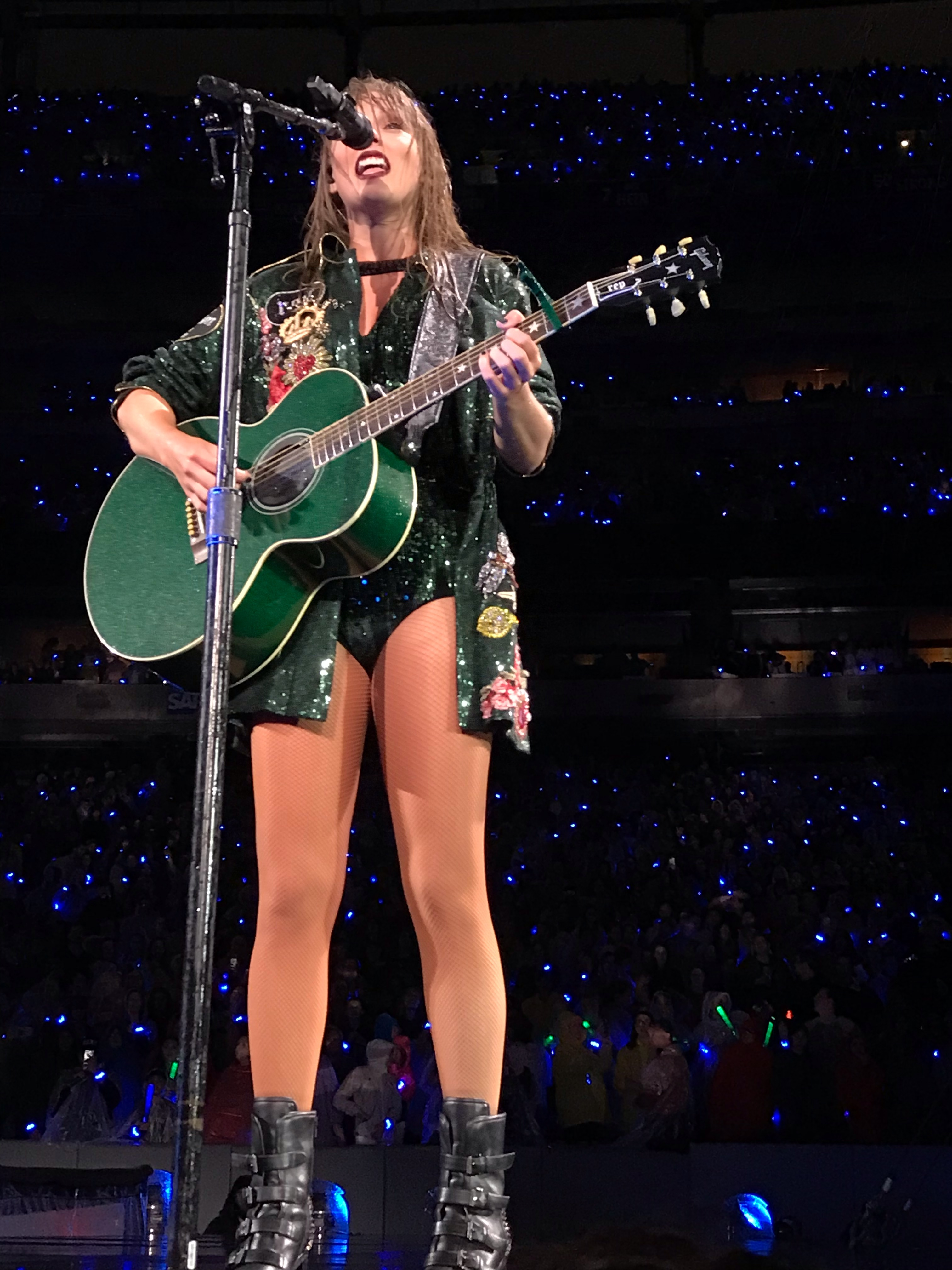 Taylor Swift performing "Fearless" on her Reputation Stadium Tour in New Jersey.